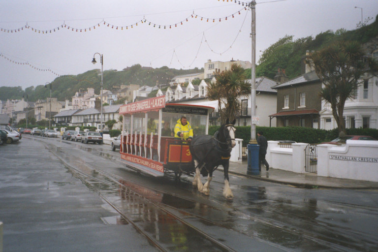 Horse tram of the Douglas Bay Horse Tramway (2002)